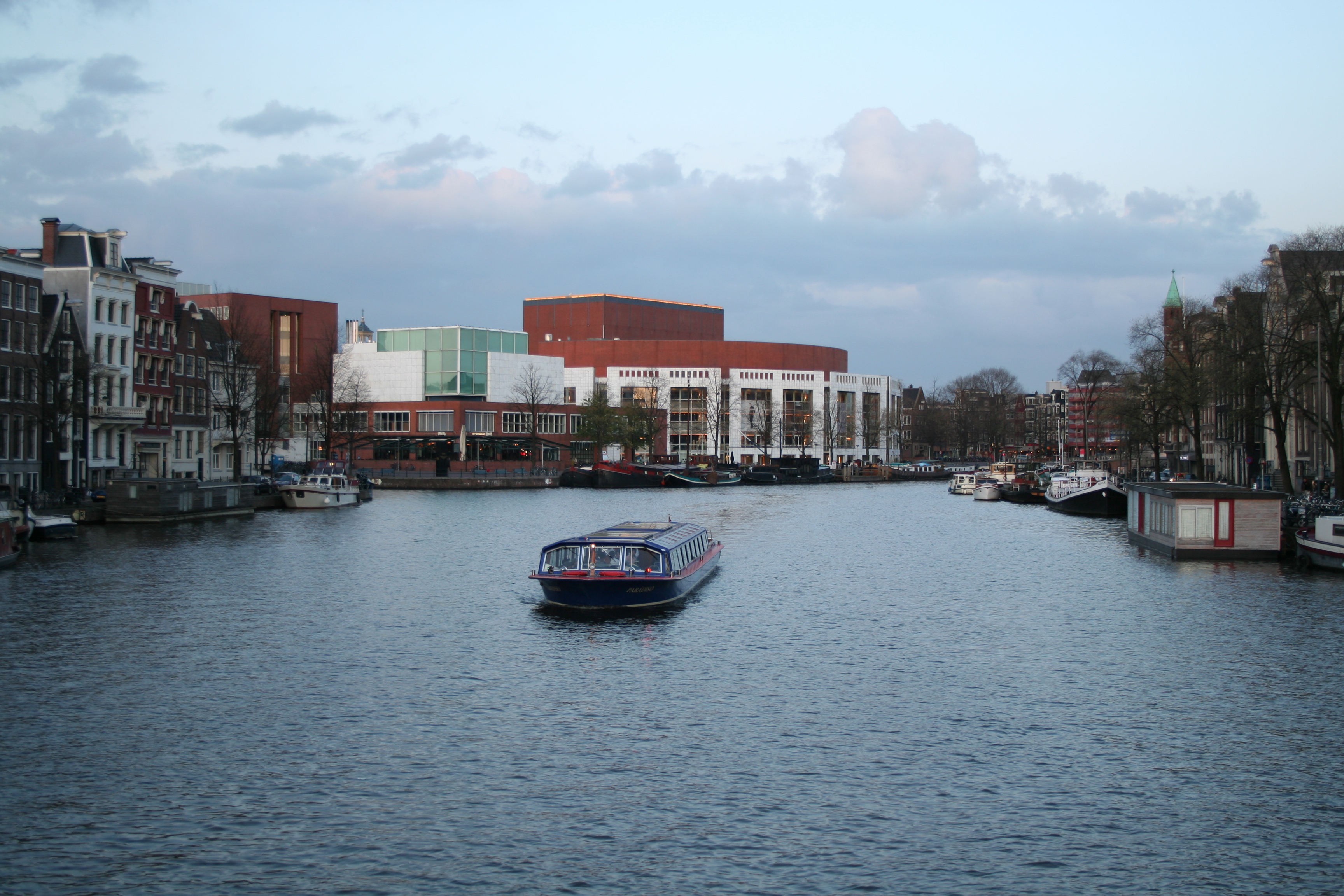 A photograph taken of the river Amstel in Amsterdam. The large building in the background is the city hall of Amsterdam